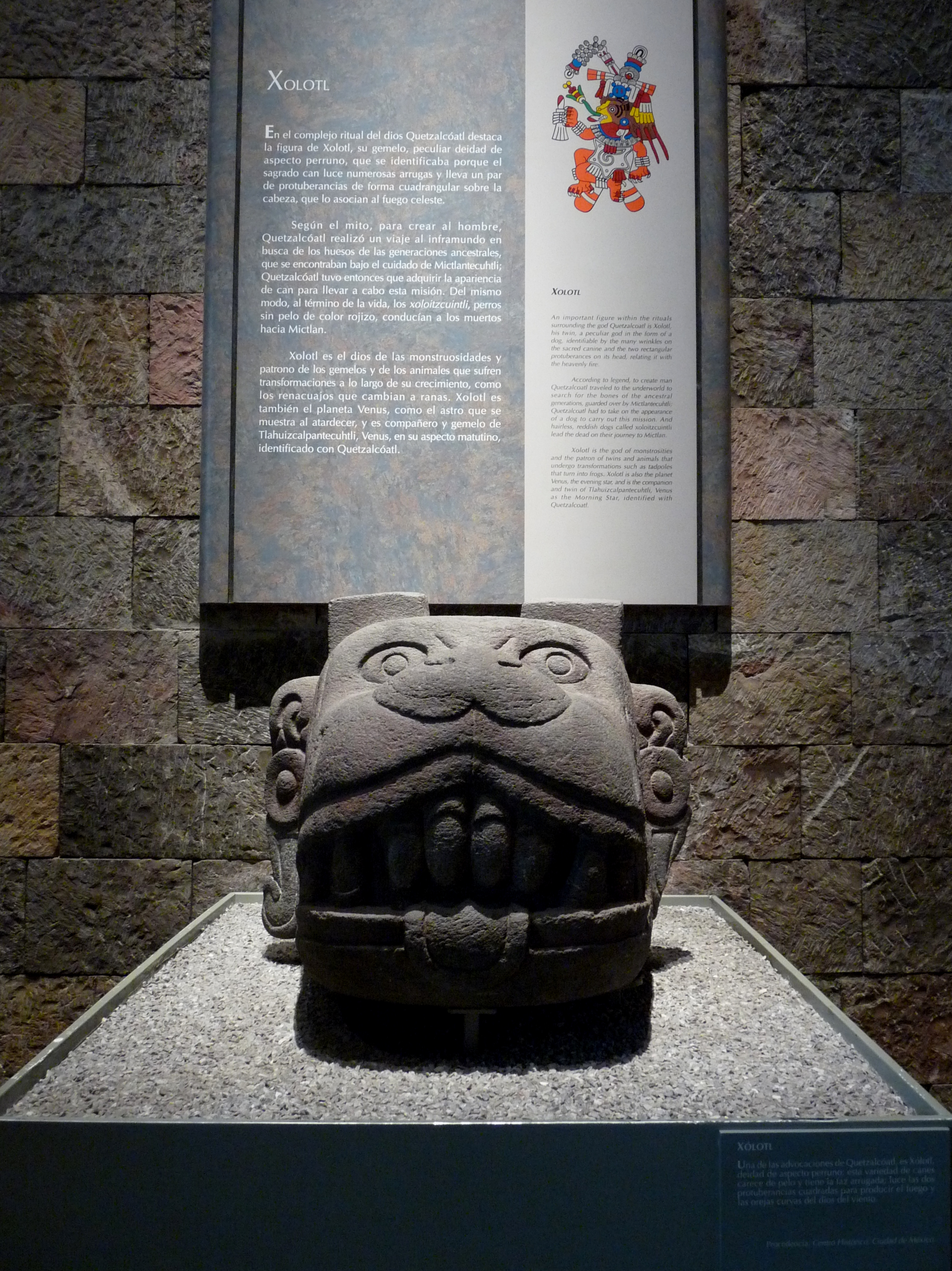 Aztec sculpture representing the head of the aztec god Xolotl, exposed in the mexica room of the Museo Nacional de Antropología de México. The sign below, on the right side, tells that this sculpture was found in the historical center of Mexico City.